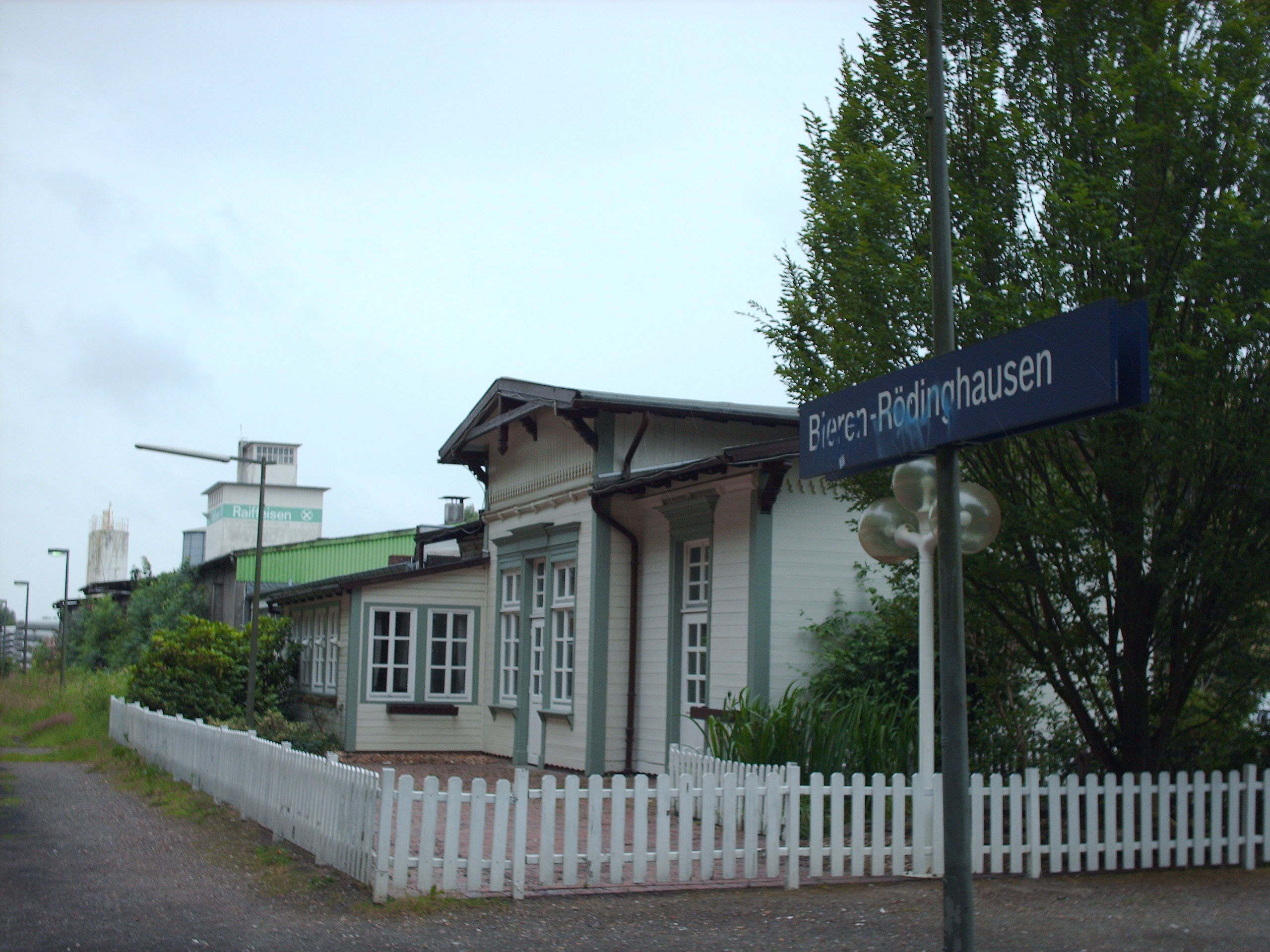 Bieren-Rödinghausen station, Rödinghausen, Germany check usage